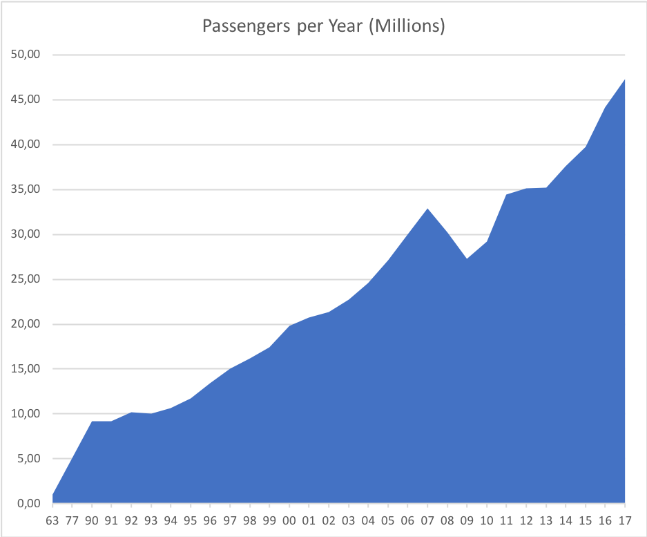 Barcelona Airport Passenger volume progression (1963-2017)